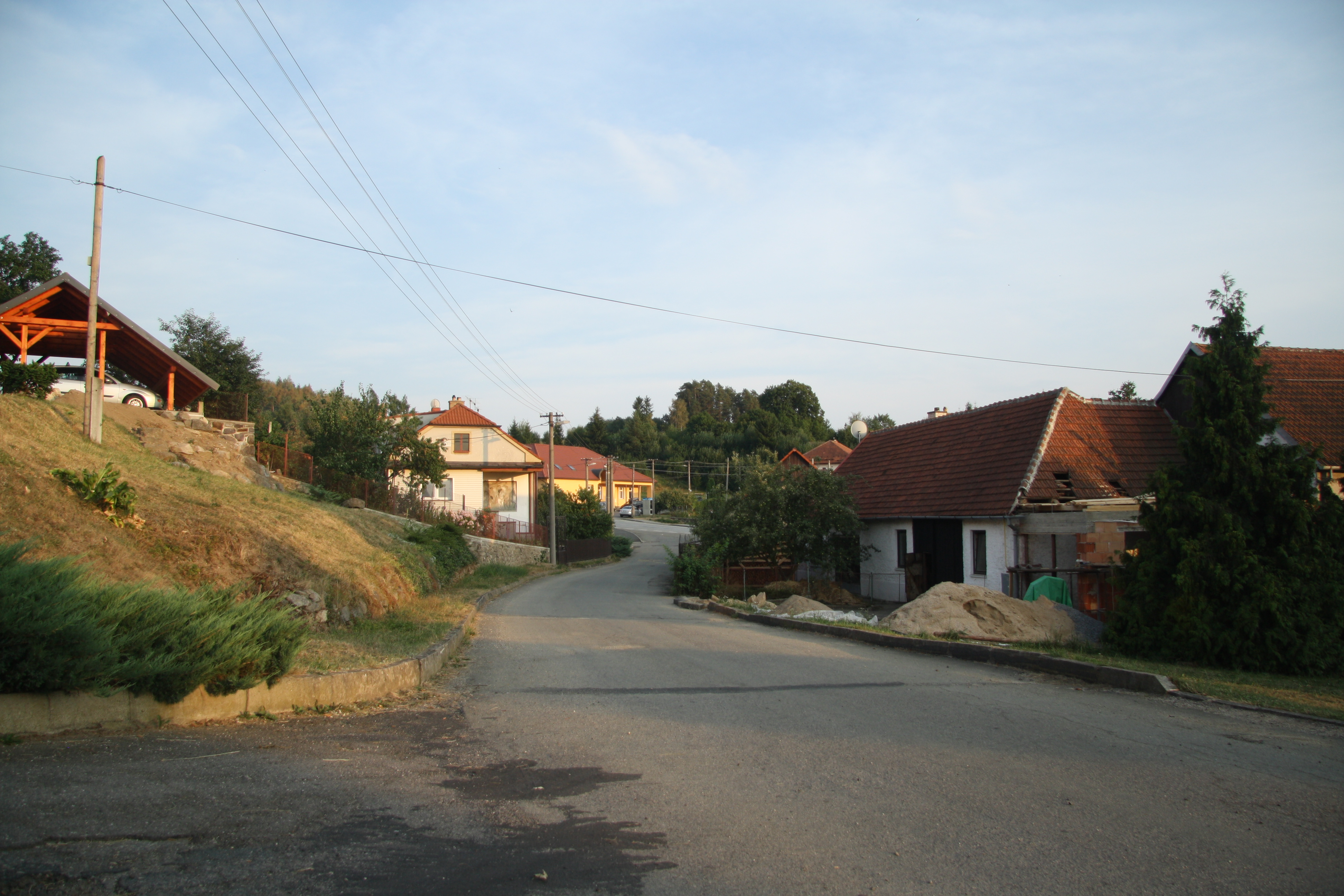 Center of Martinice, Žďár nad Sázavou District.